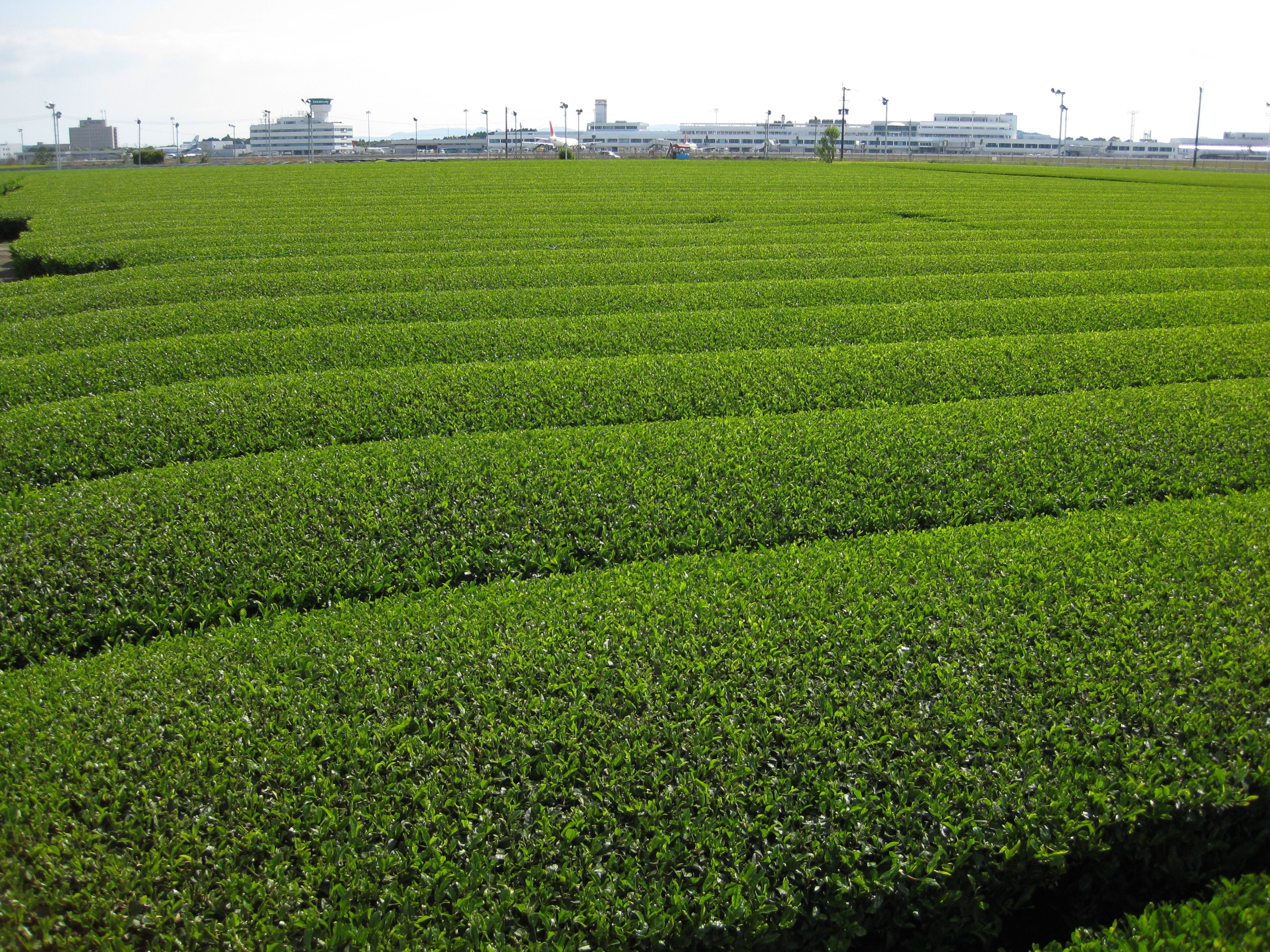 Tea Plantation and Kagoshima Airport at Jusanzukabaru Plateau in Kagoshima, Japan